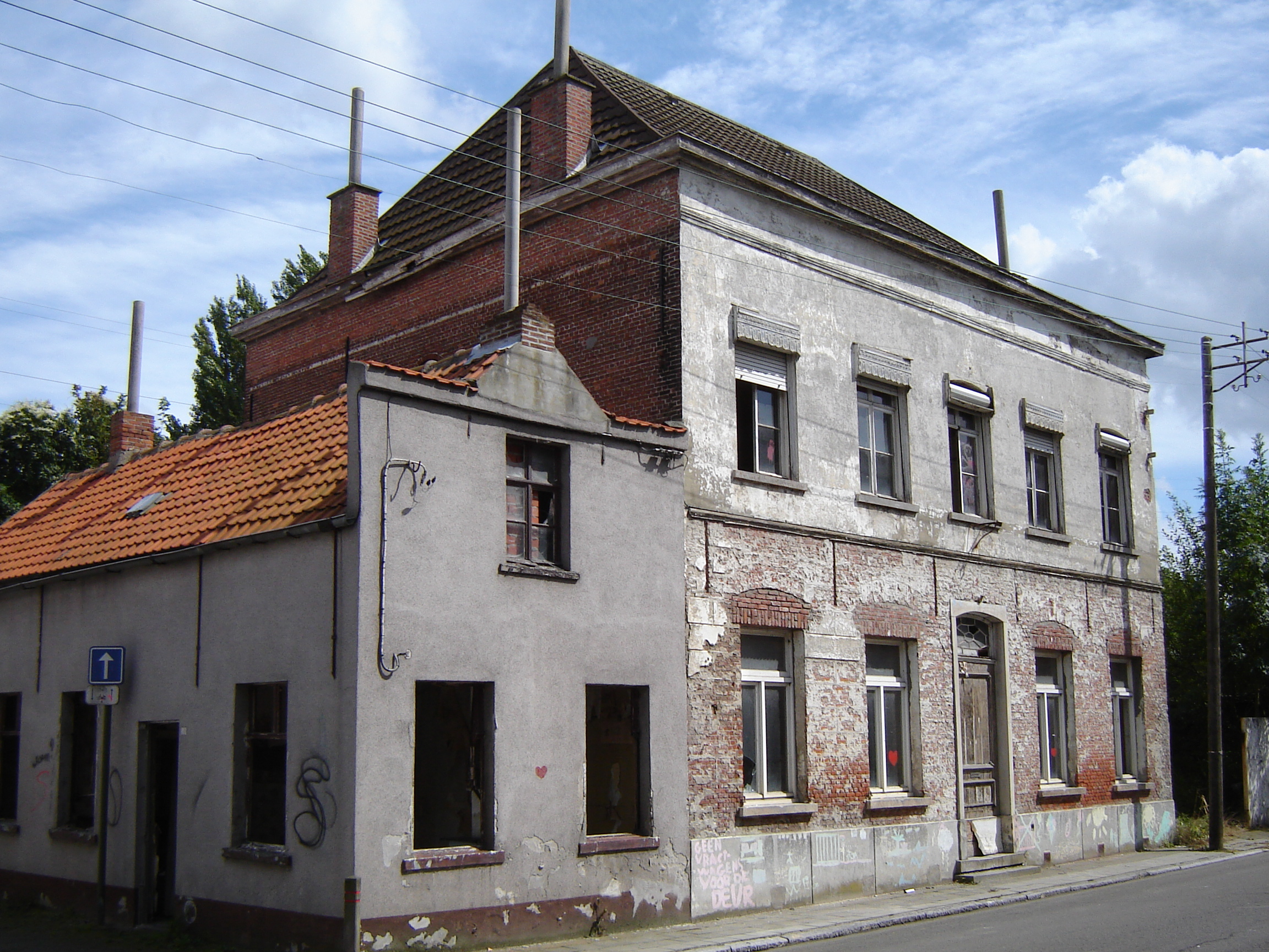 Abandoned house, Hooghuisstraat 7 and house on the corner with the Havenweg street, in Doel. Doel, Beveren, East Flanders, Belgium